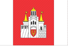 Flag of Pereiaslav-Khmelnytskyi Raion, Kiev Oblast Ukraine.